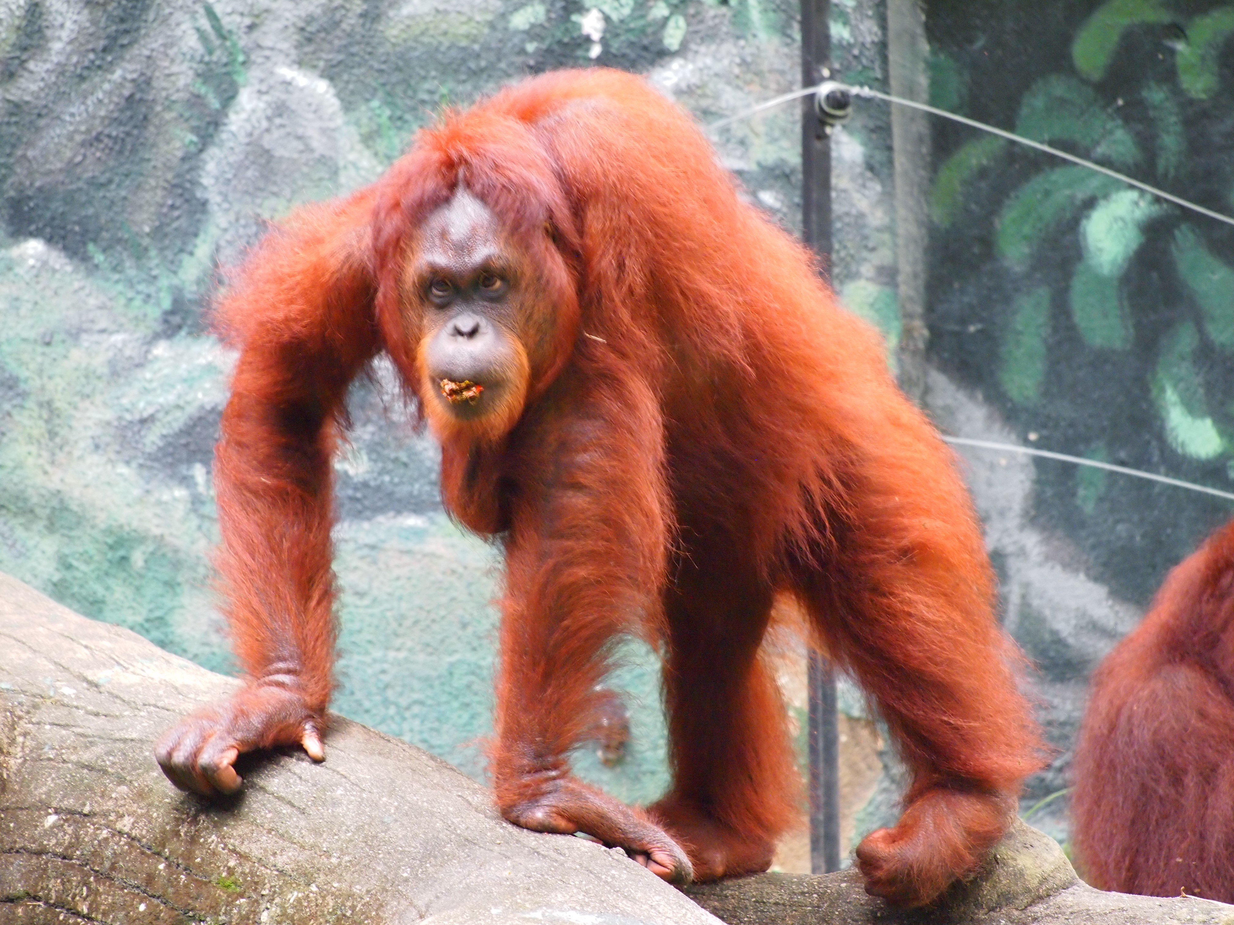 Oran Utan at National Zoo Malaysia